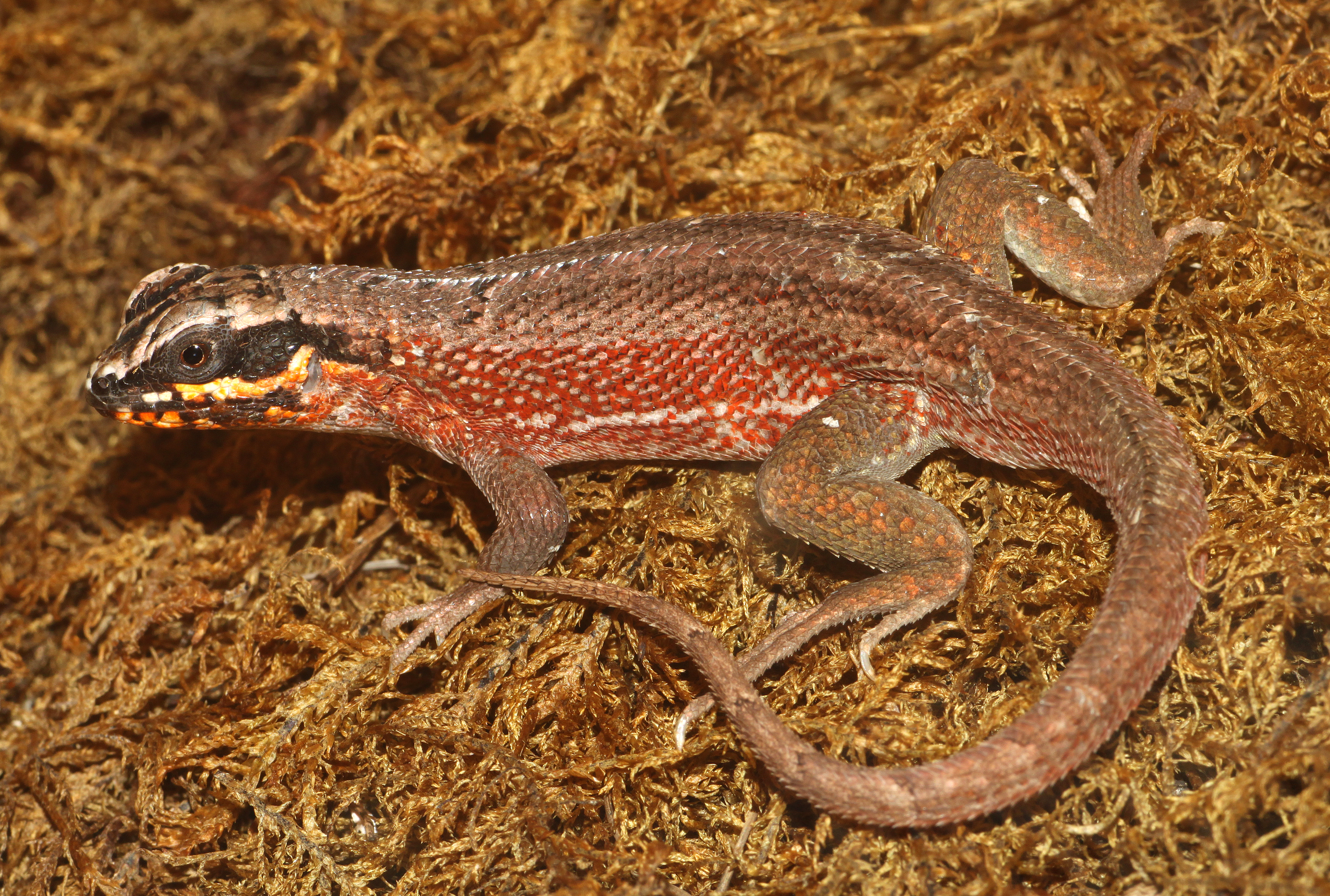 Hispaniolan Masked Curly-Tailed Lizard, Leiocephalus personatus, Family: Leiocephalidae, Location: Germany, Neu-Ulm, Reptilienzoo.